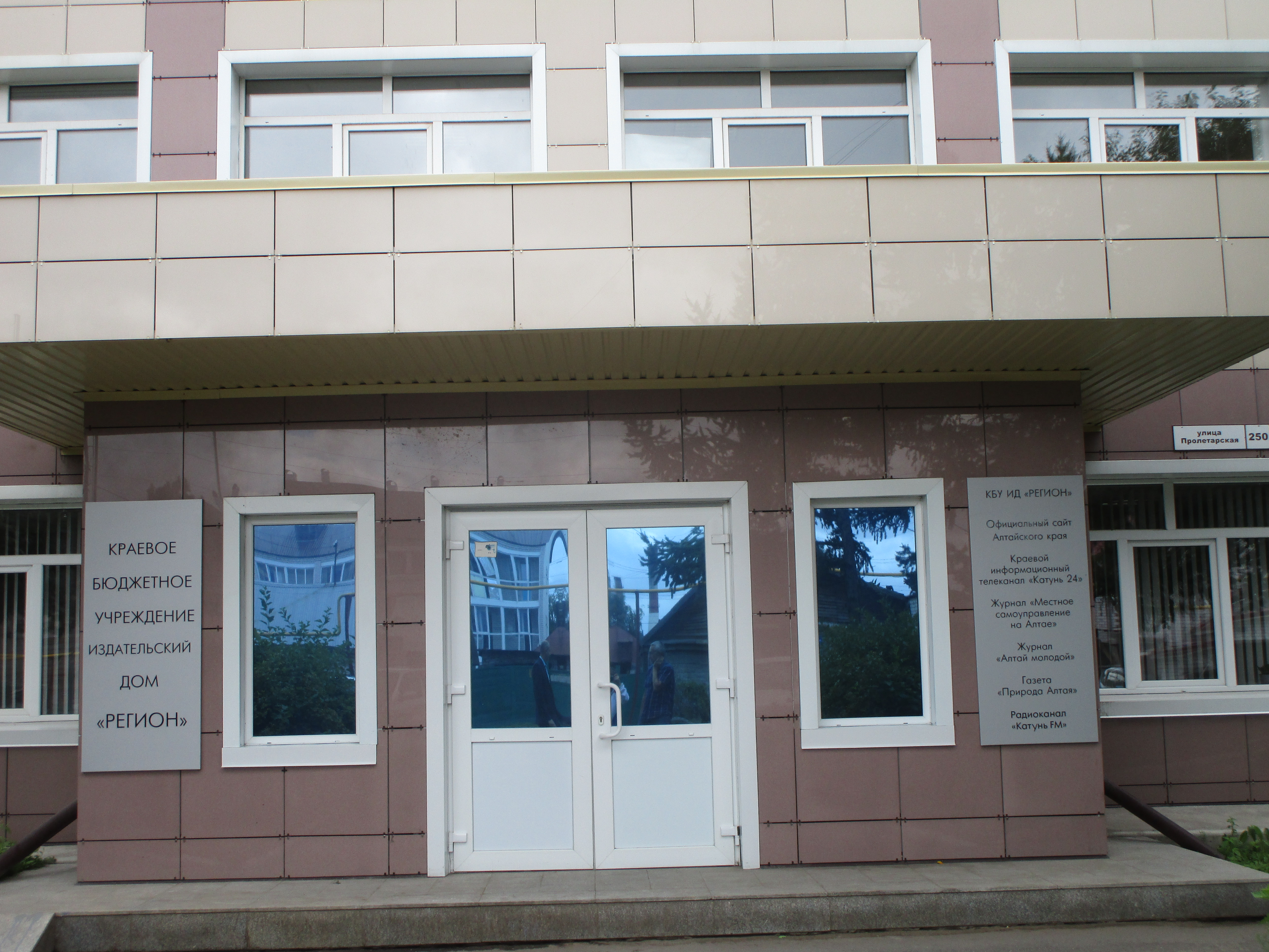 "Region" publishing house's entry, that responsible at the "Katun 24" and others Barnaul's TV channels, radio channels and newspapers